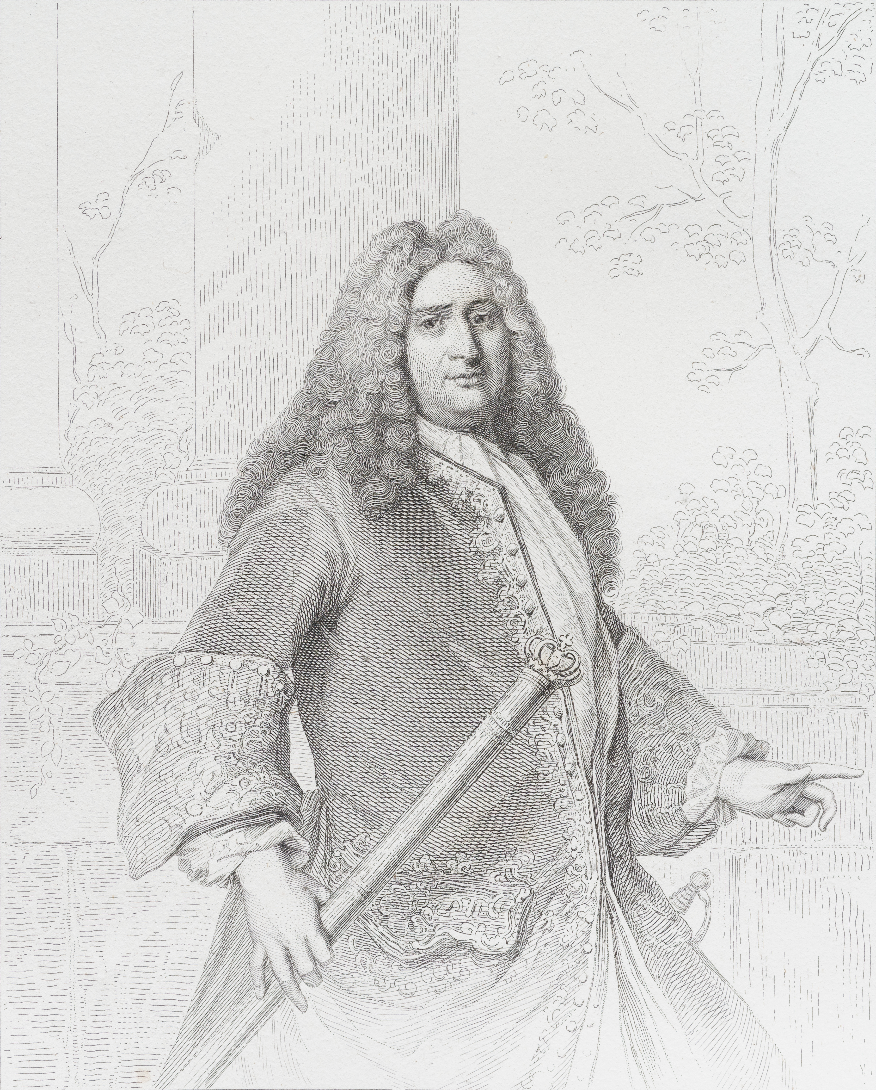 Engraving from Galerie historique de Versailles (ed. Charles Gavard) no.2480 after an anonymous painting of the 17th century.